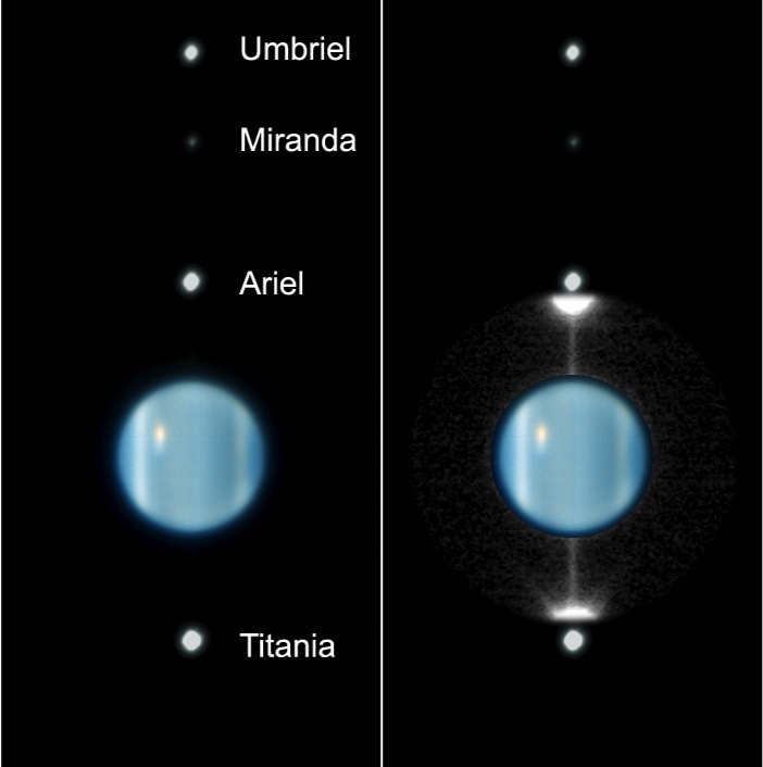 The rings of Uranus are shown here captured almost exactly edge-on to Earth. This false-colour image was obtained by the NAOS-CONICA infrared camera on ESO's Very Large Telescope at Paranal, Chile. It was taken at 9:00 UT on 16 August 2007, just two hours after Earth had crossed to the lit side of the ring plane. We are peering over the sunlit face of the rings at an opening of only 0.003 degree, an angle so small that the thin rings nearly disappear. At right, the region around the planet has been enhanced to show a thin line, which is sunlight glinting off the ring edges and also reflected by dust clouds embedded within the system. The pictures at left shows the planet and identifies four of its largest moons. One can clearly discern banding in the atmosphere and a bright cloud feature near the planet's south polar collar, on the left side of the image. This is a composite of images taken at infrared wavelengths. The planet is shown in false colour, based on images taken at wavelengths of 1.2 and 1.6 microns. The rings are extracted from an image taken at 2.2 microns, where the planet is darker and therefore the rings are easier to detect. The observations were done by Daphne Stam (TU Delft) and Markus Hartung (ESO, Chile), in close collaboration with Mark Showalter (SETI) and Imke de Pater (UC Berkeley and TU Delft).